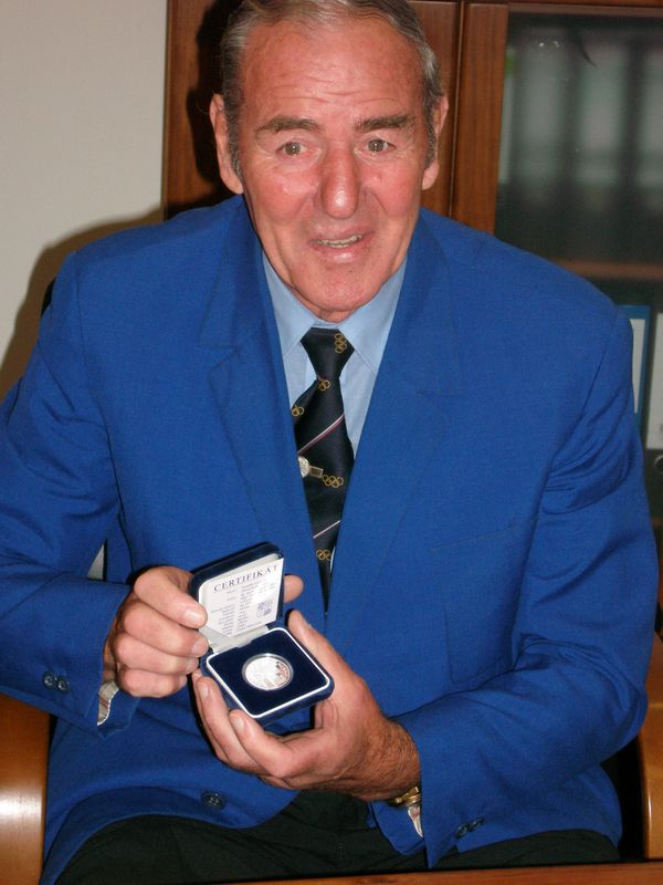 Czech boxing legend Josef Nemec (*1933)